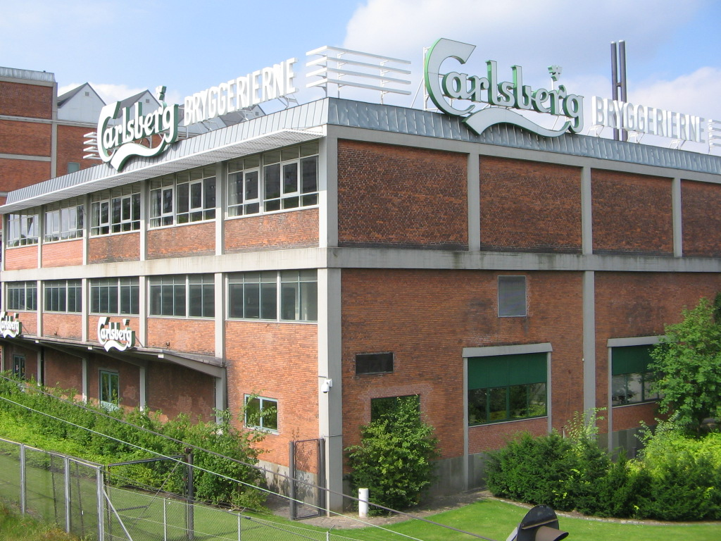 Carlsberg factory in Copenhagen